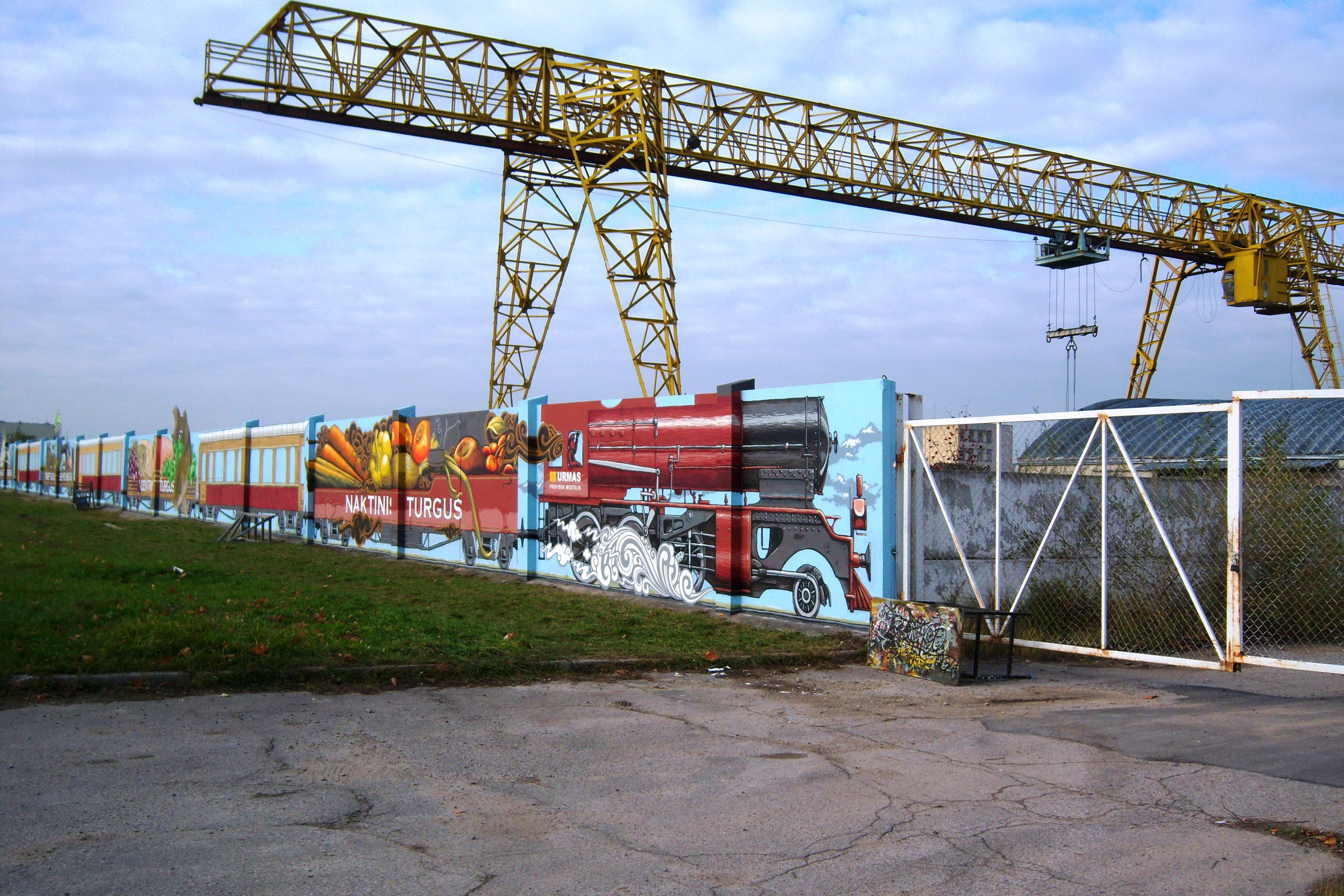 Legal graffiti, 300 m long, Kaunas, Lithuania